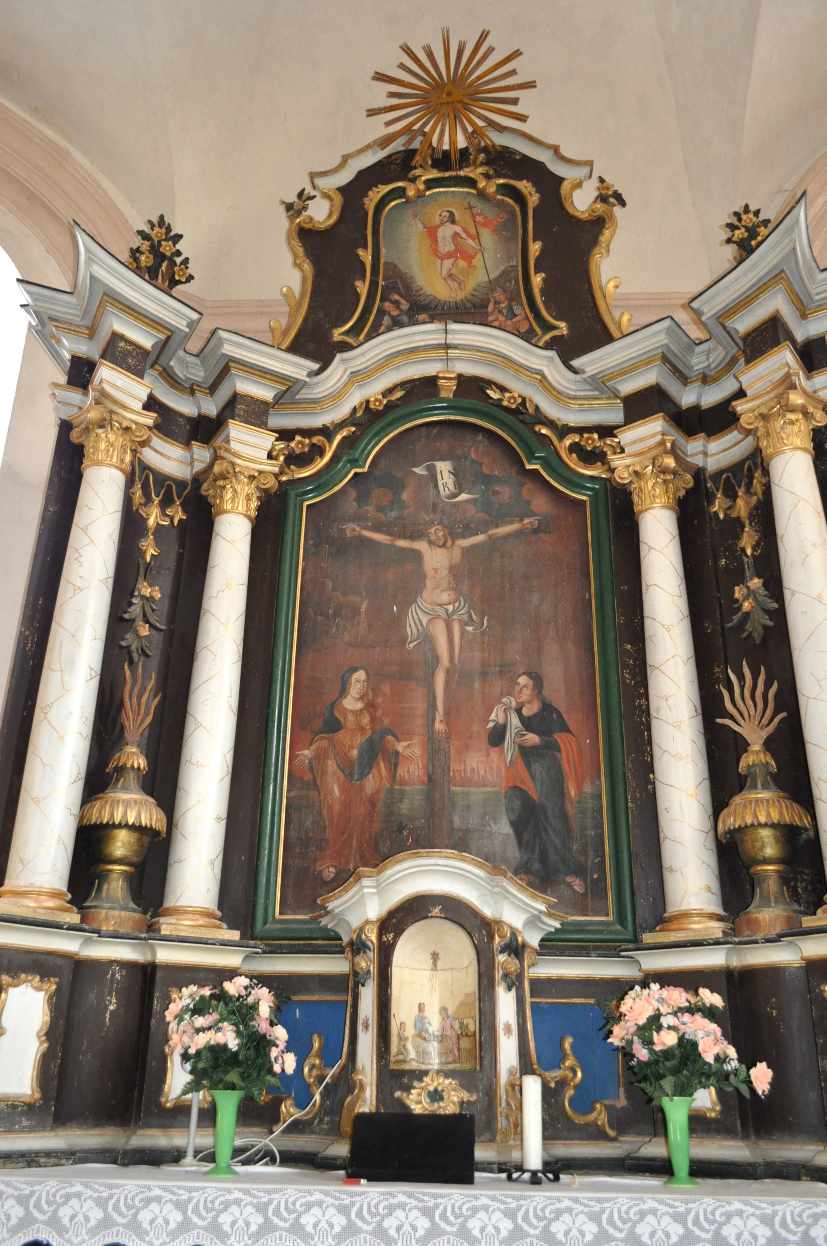 Lutheran church in Zagăr, Mureș county, Romania 01